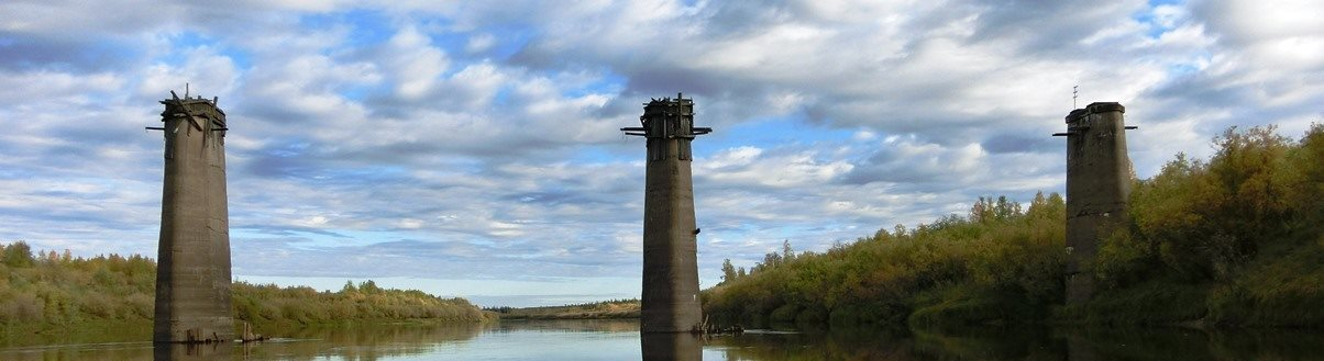 Unfinished bridge over the river Turukhan in Yanov Stan (head on)